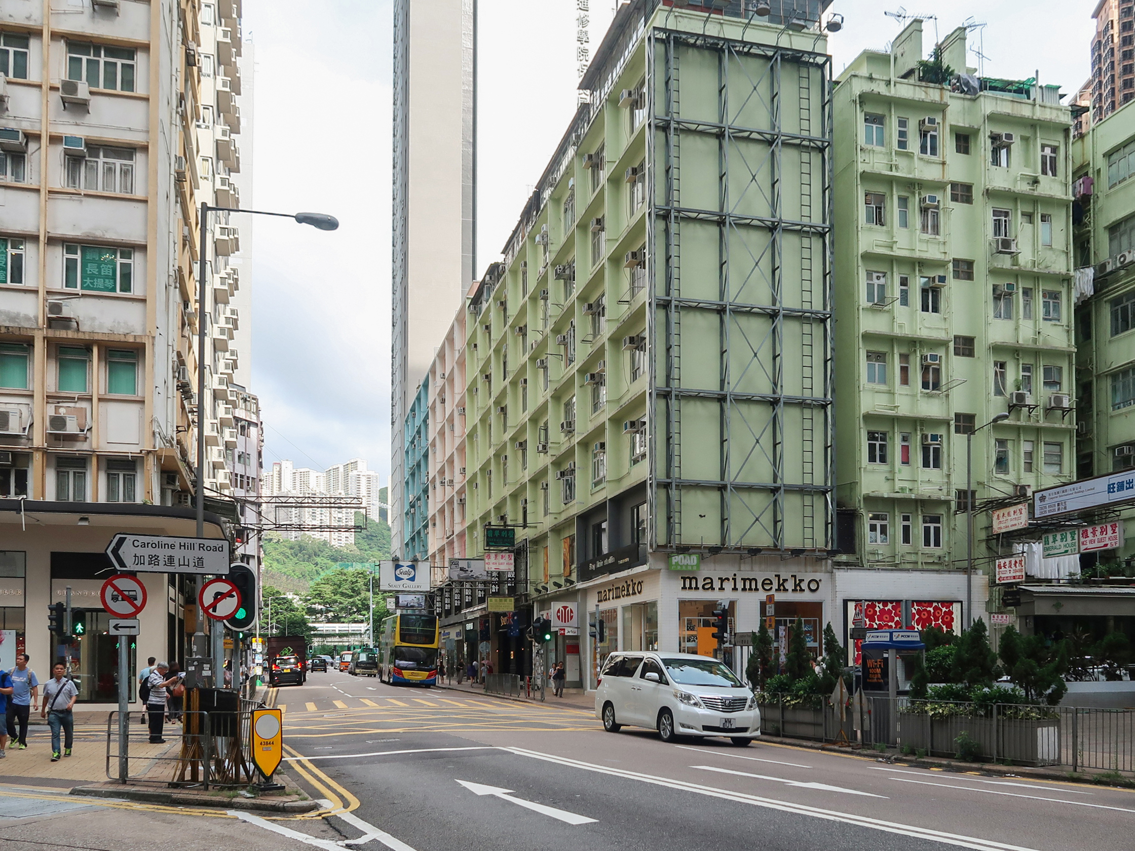 Leighton Road